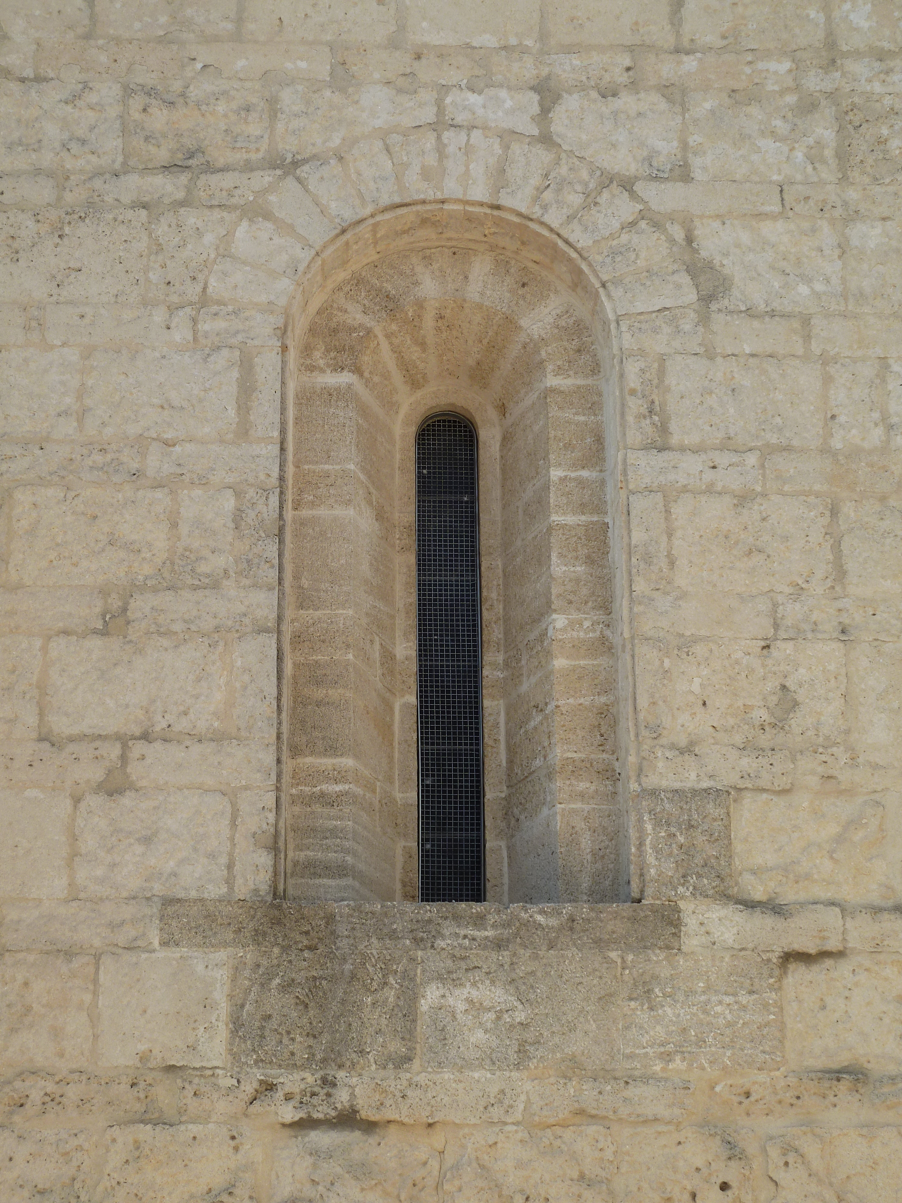 Church of Saint-Jean-Baptiste in Castelnau-le-Lez (vicinity of Montpellier, France). South side. Window of the second bay of the nave.